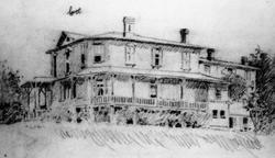 'Summerhill' estate, formerly at eastern end of Summerhill Ave, Toronto